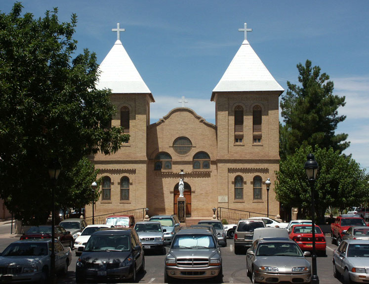 Photographer: User:camerafiend }